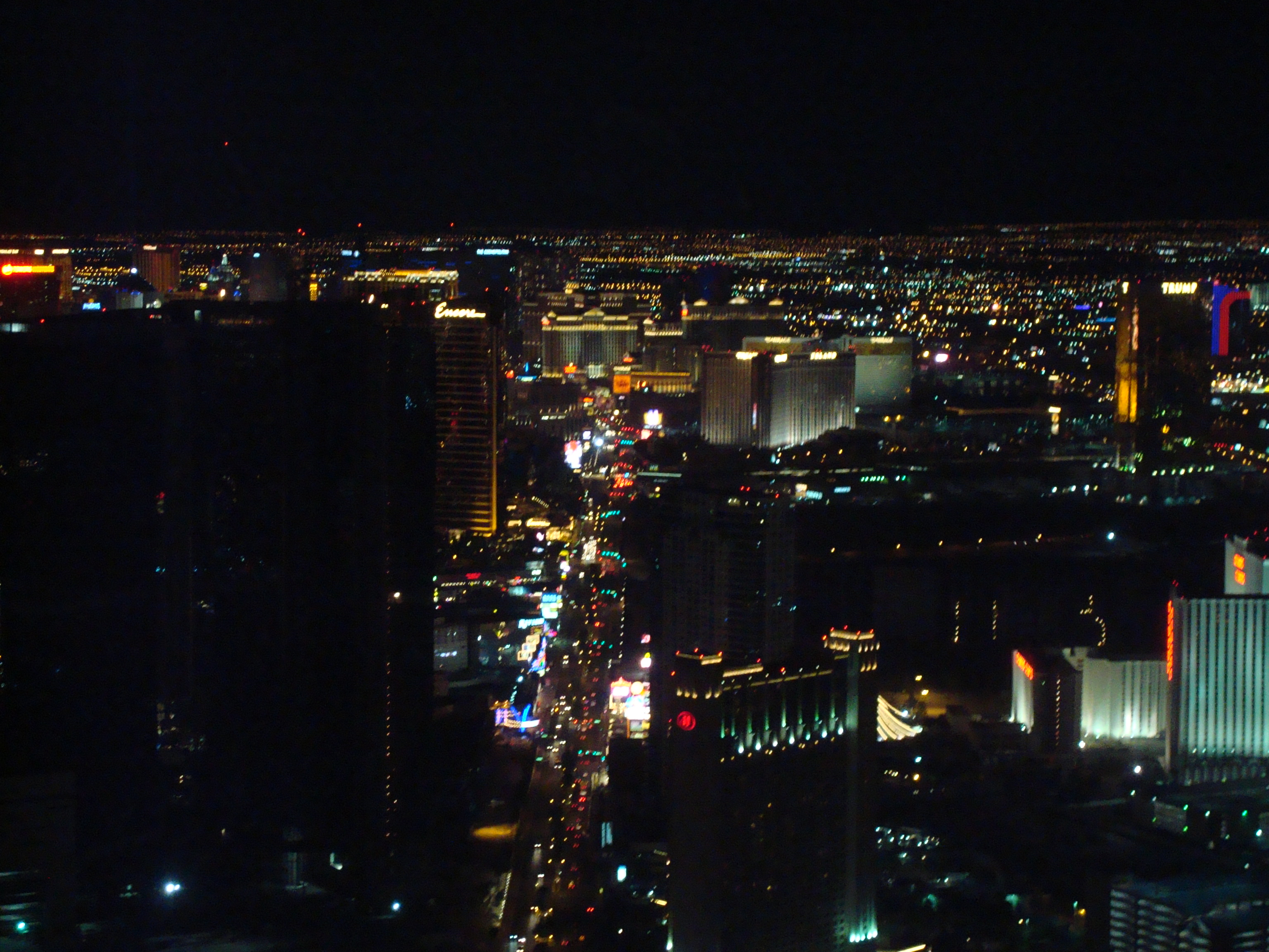 Night view of Las Vegas, NA